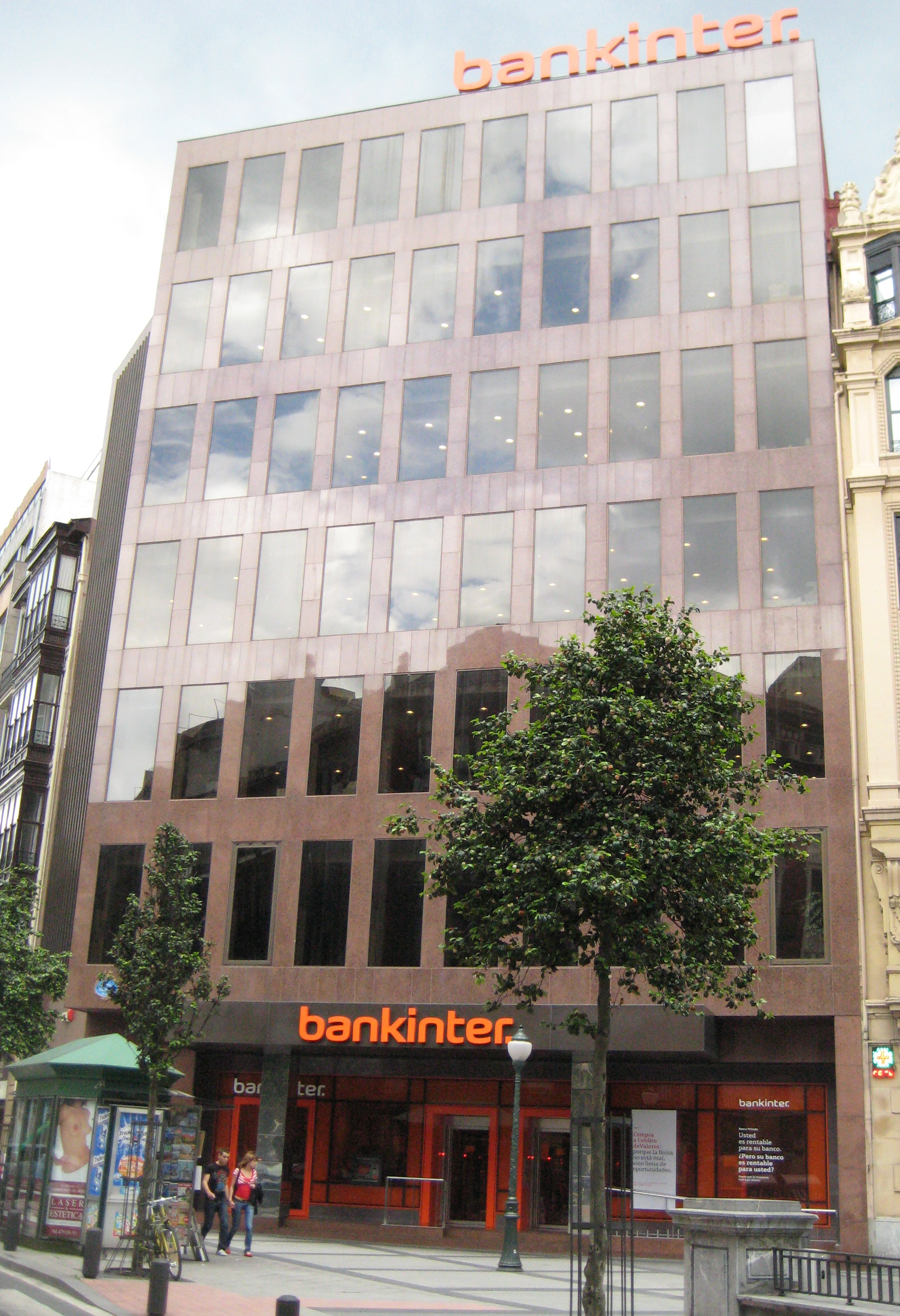 Bankinter building at Indautxu, Bilbao.